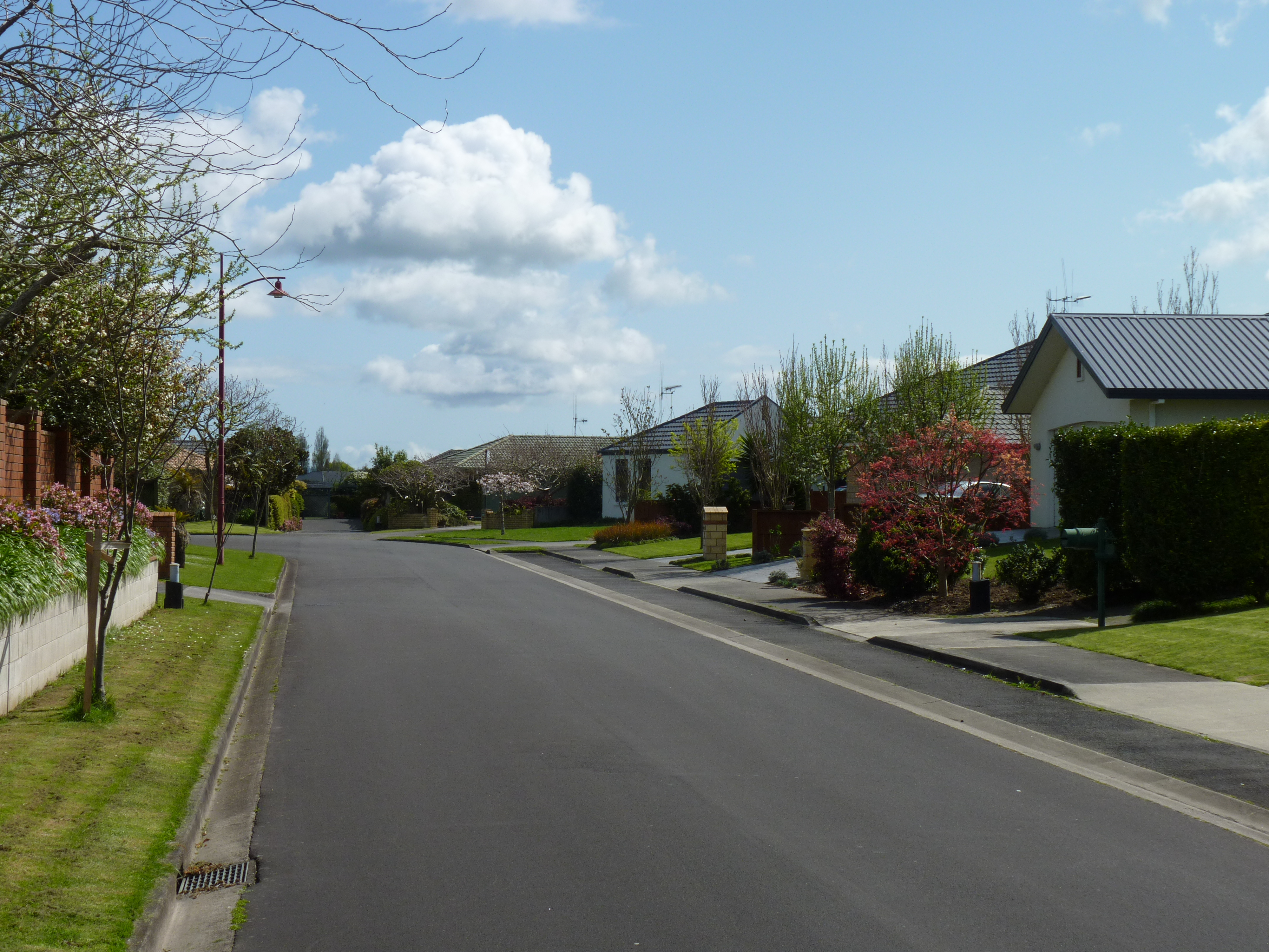 Callum Brae, northeast Hamilton.